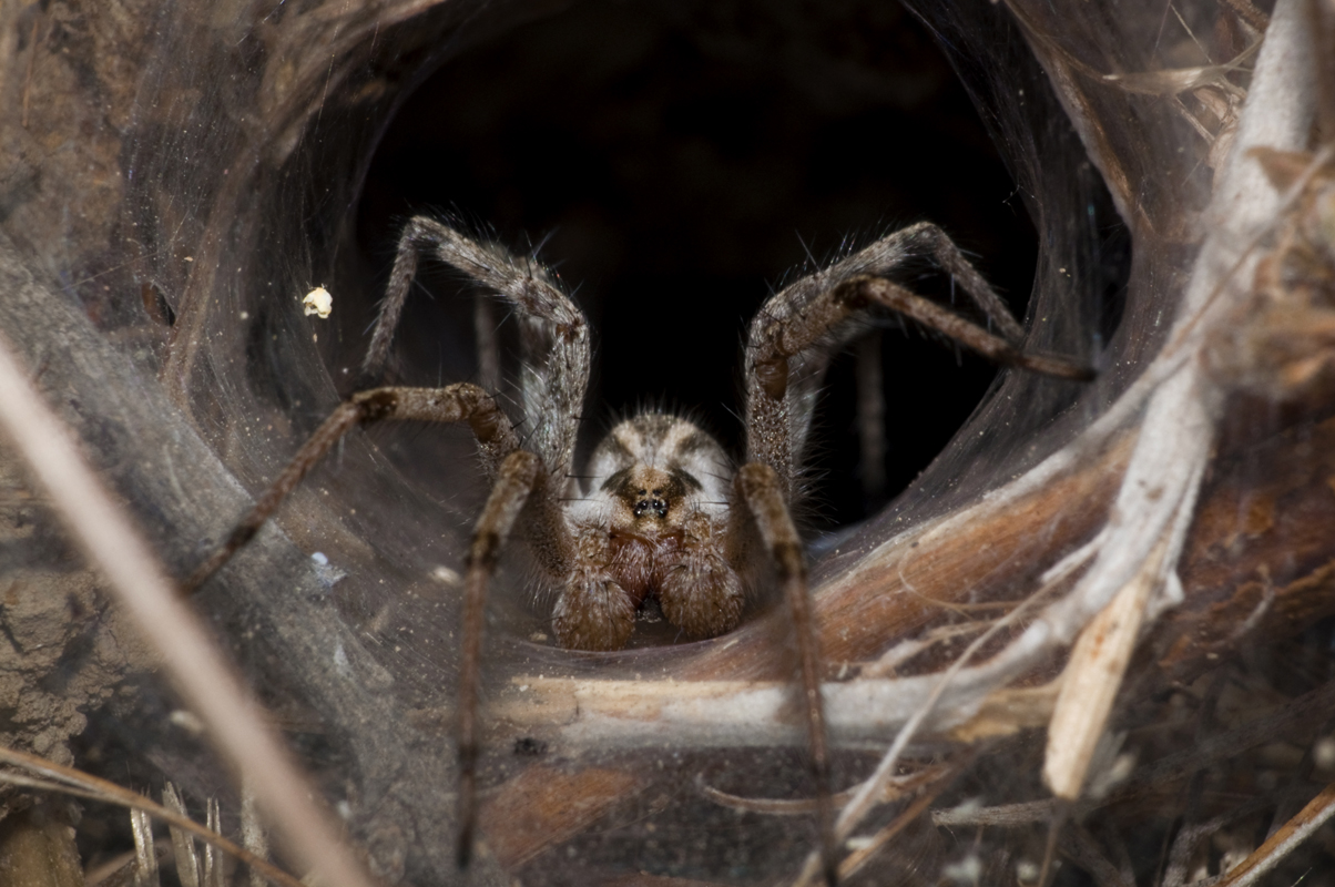 A spider photo taken in Alum Rock Park in California. The photographer gently used a tuning fork on the den to lure the spider out.